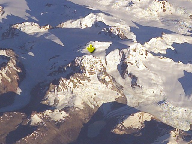 Cerro_Steffen, Campo de Hielo Sur, Chile. Cropped and edited from original image.